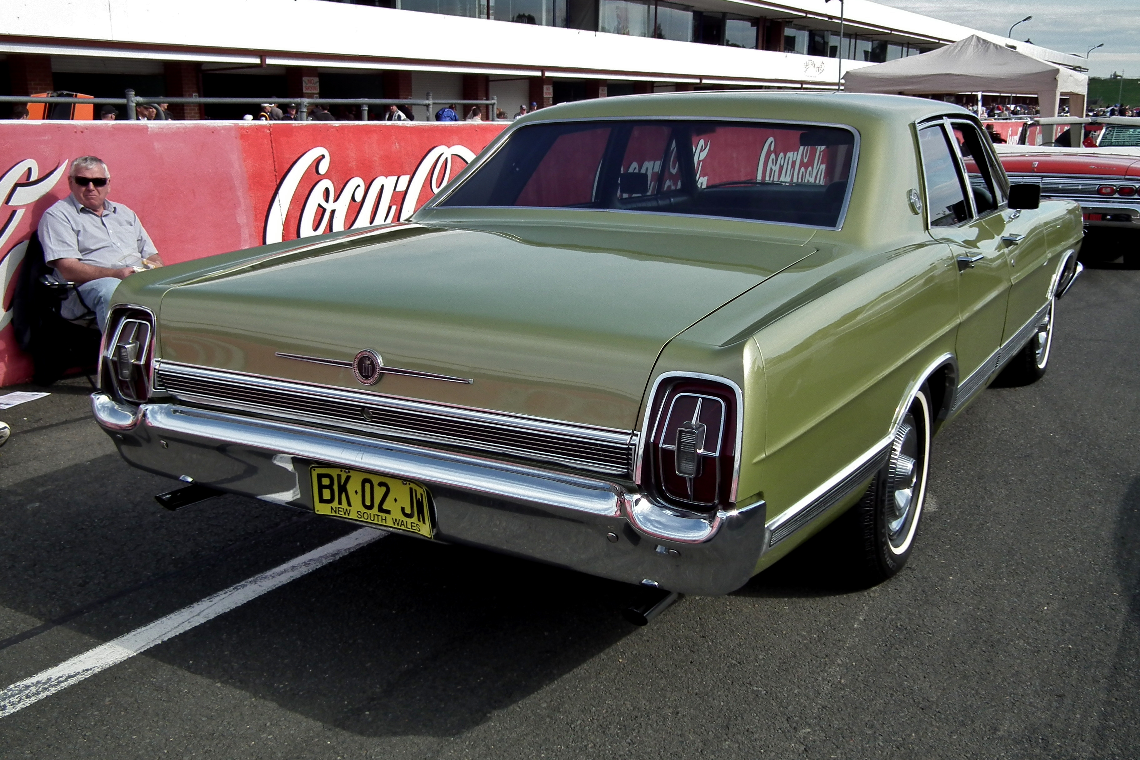 1967 Ford Galaxie LTD sedan. Taken at the 2011 New South Wales All Ford Day, held at Eastern Creek Raceway.